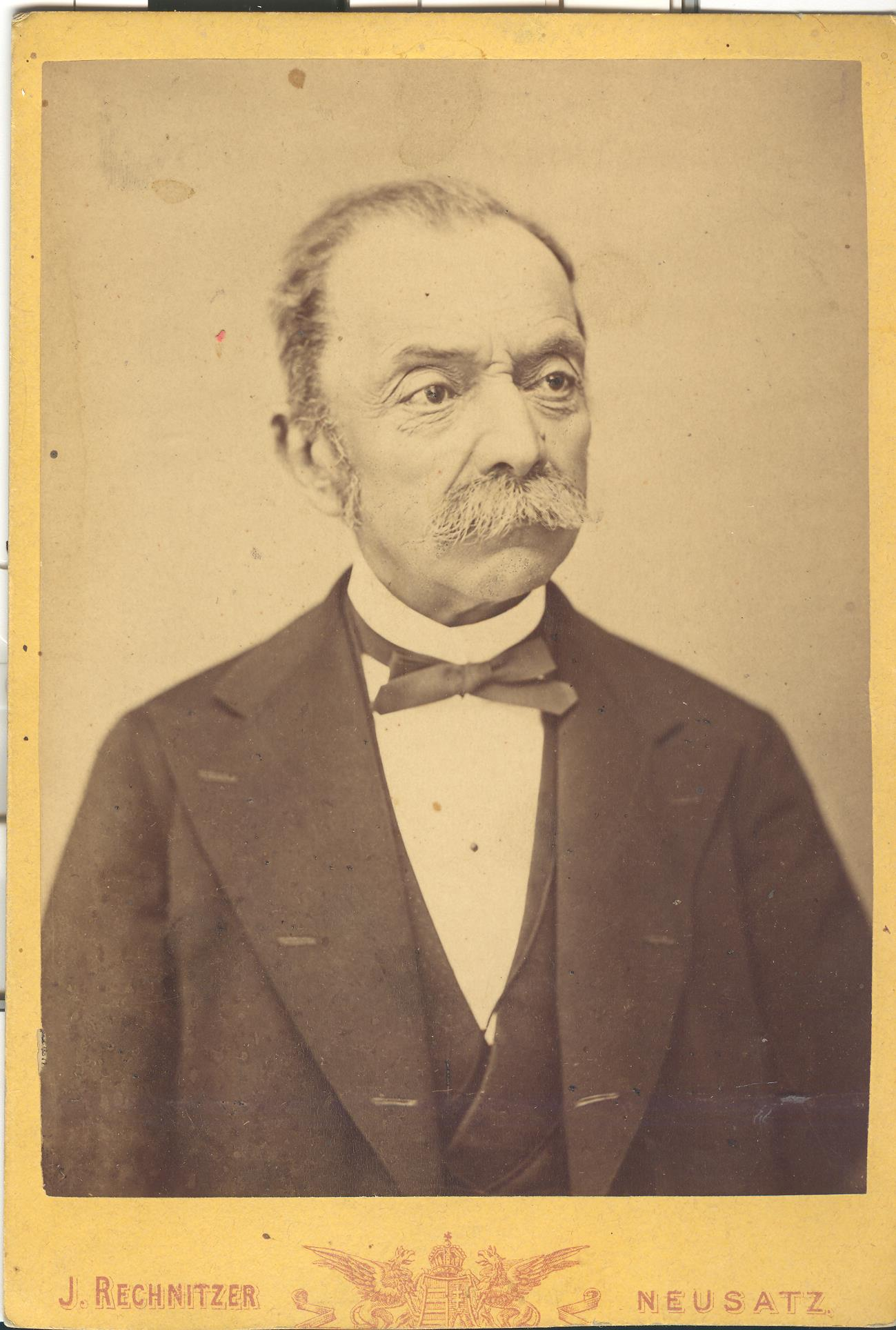 Đorđe Koda, Serbian merchant and benefactor